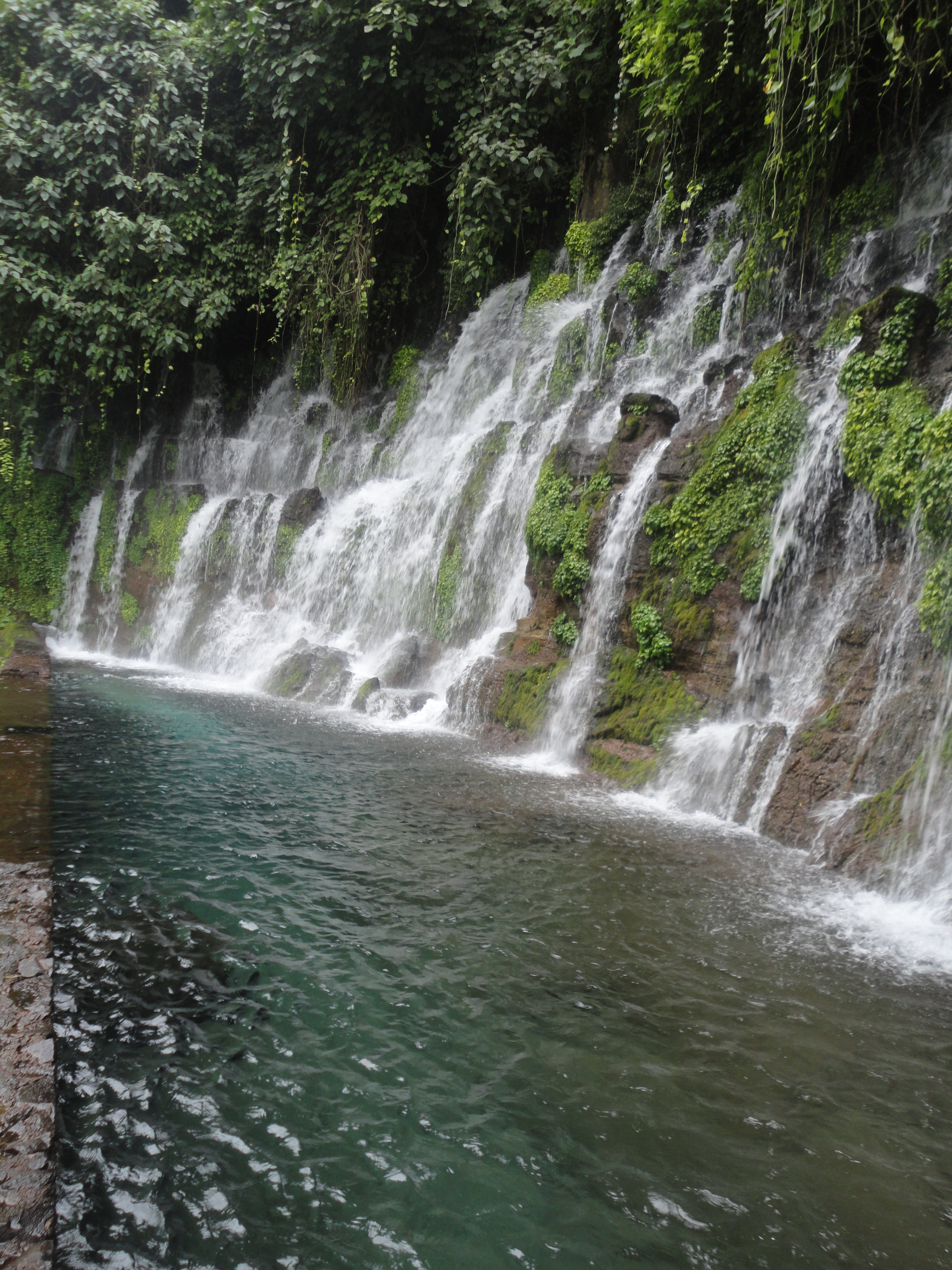 Waterfall Chorros de La Calera, Juayua, Sonsonate El Salvador